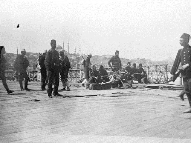 Soldiers of the Action Army on the Galata Bridge